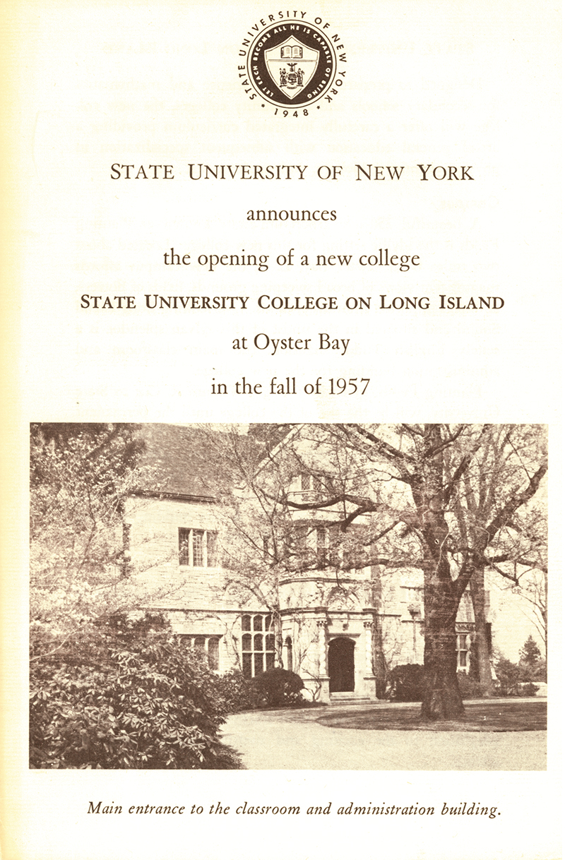 State University of New York (SUNY) announces the opening of a new college State University on Long Island at Oyster Bay in the fall of 1957